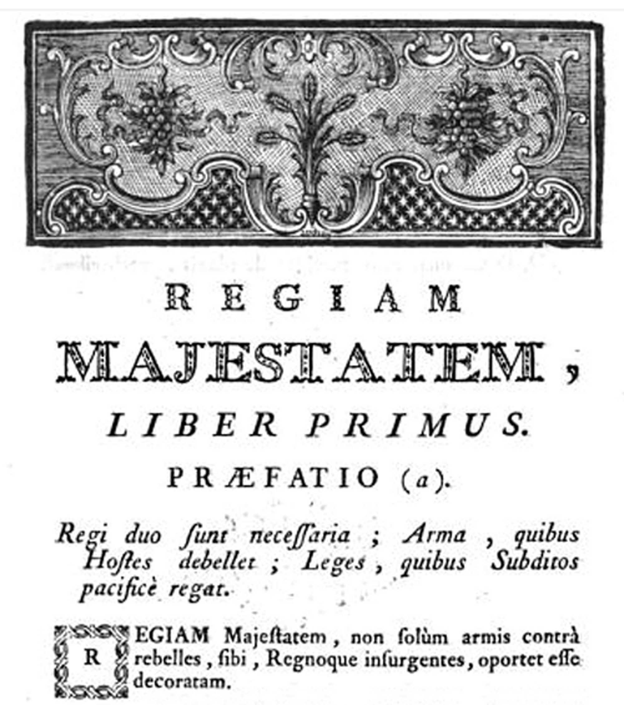 Beginning of the preface of the Regiam Majestatem, from which the document gets its name, in David Hoüard's 1776 publication. The Regiam Majestatem is the earliest surviving work giving a comprehensive digest of the Law of Scotland.